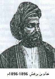 sultan Kalid bin Barghash of zazibar, he ruled from August 25 to August 27, 1896